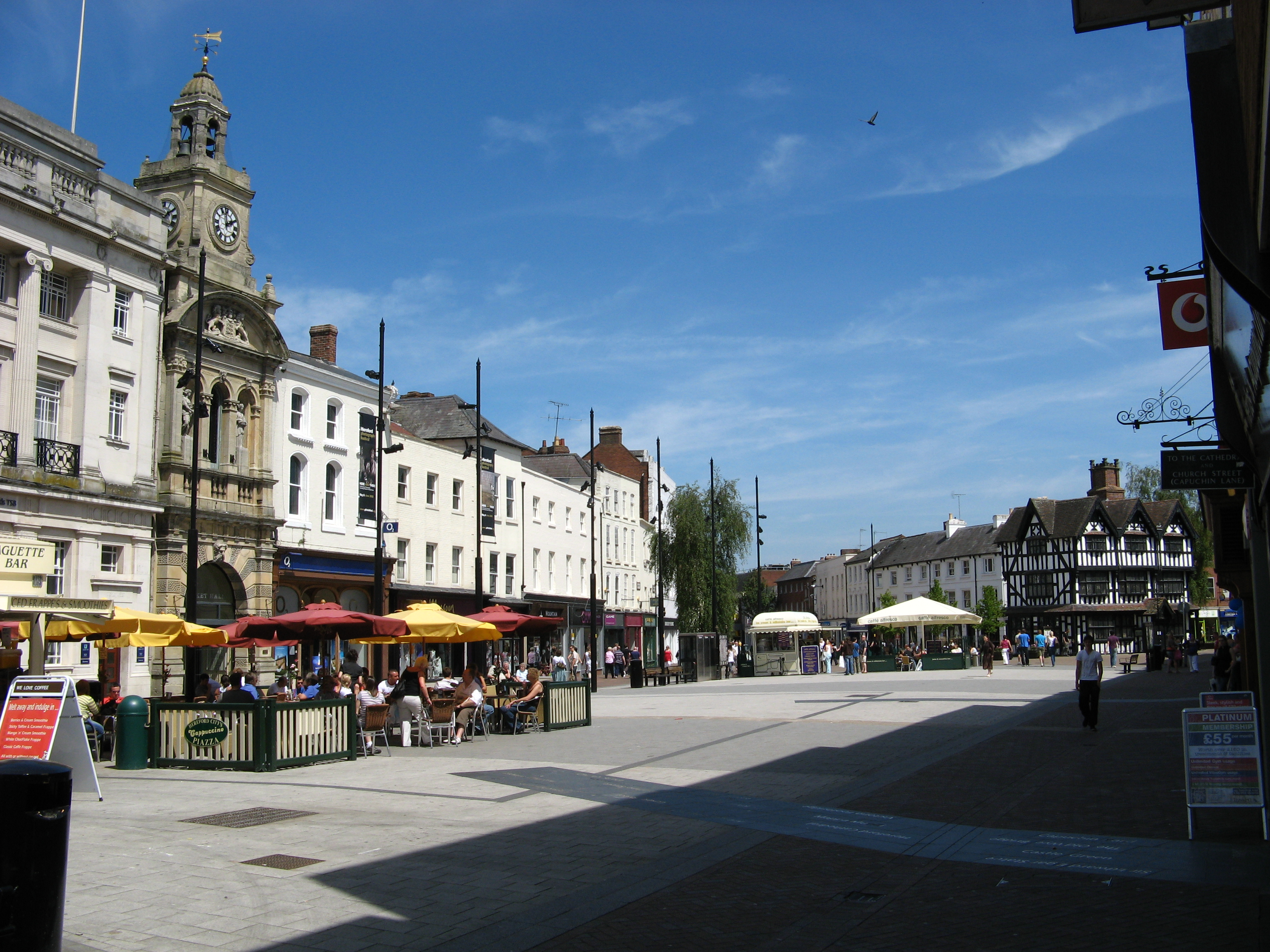 Hereford, High Street pedestrian shopping area, also known as High Town.